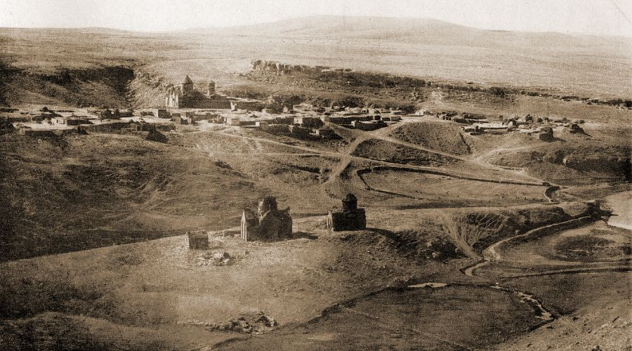 The 10t century Armenian Monastery of Horomos near Ani.